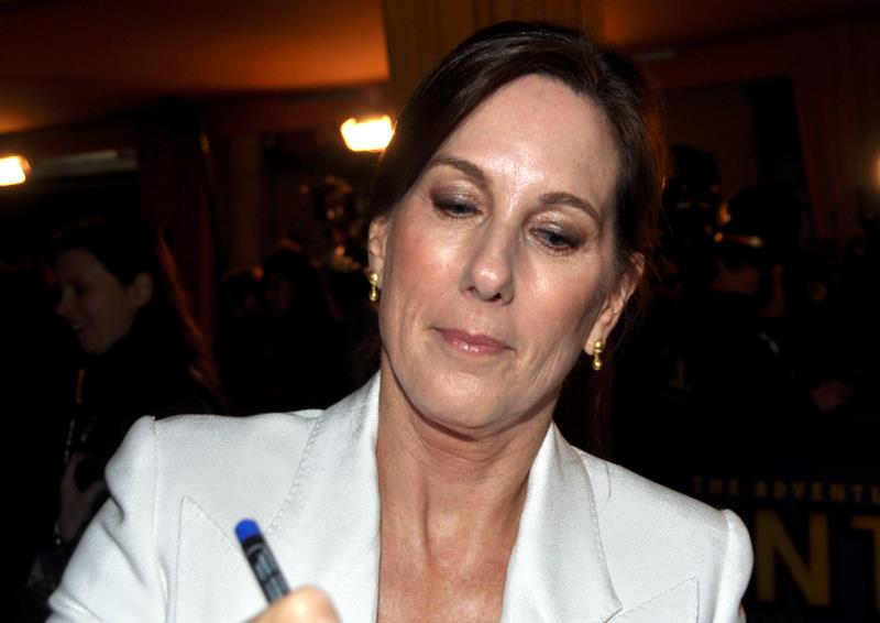 Producer Kathleen Kennedy at the Paris premiere of "The Adventures of Tintin"